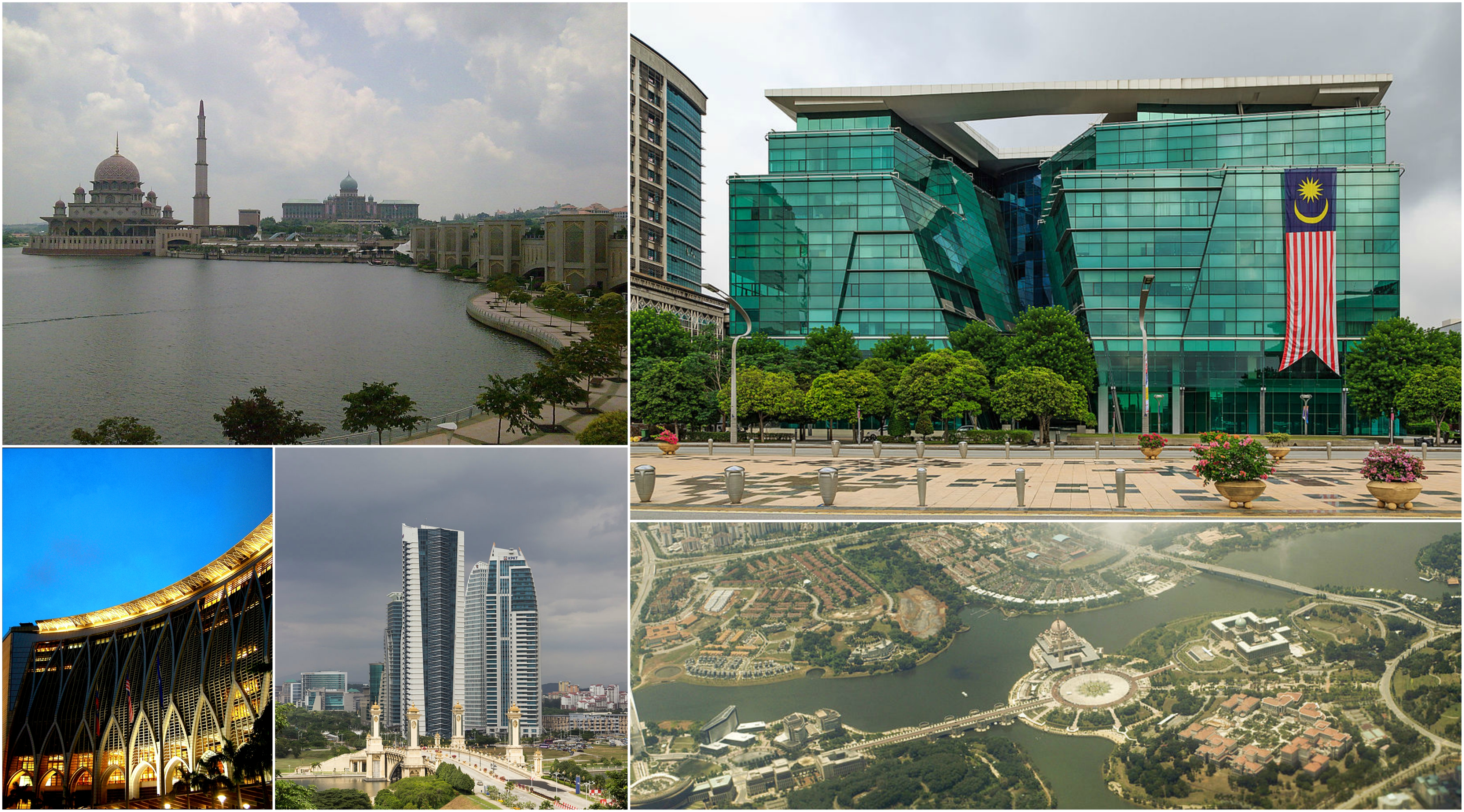 Top left to right: Putra Mosque and the Perdana Putra, Ministry of Health Bottom left to right: Ministry of Finance building, high rise ministry complexes, Putrajaya viewed from the air.